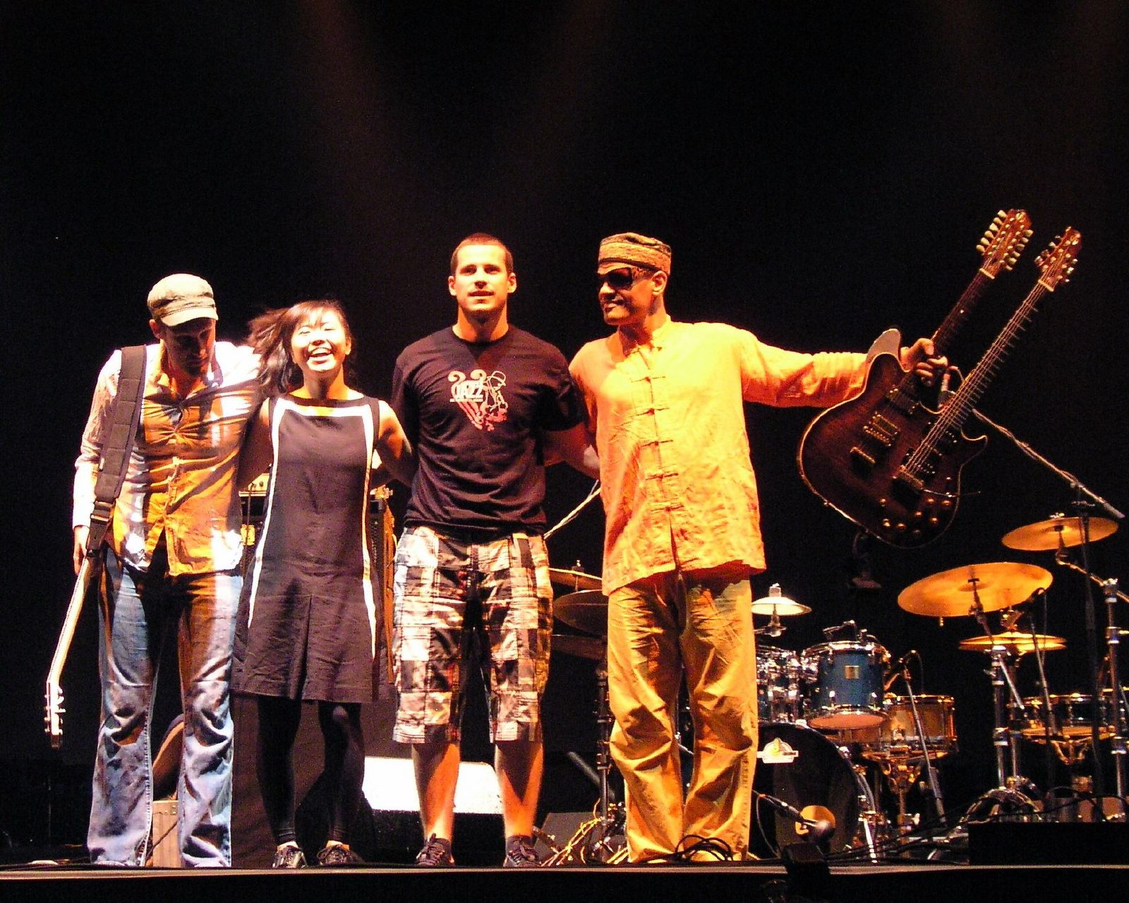 Nearly finished----P1011498